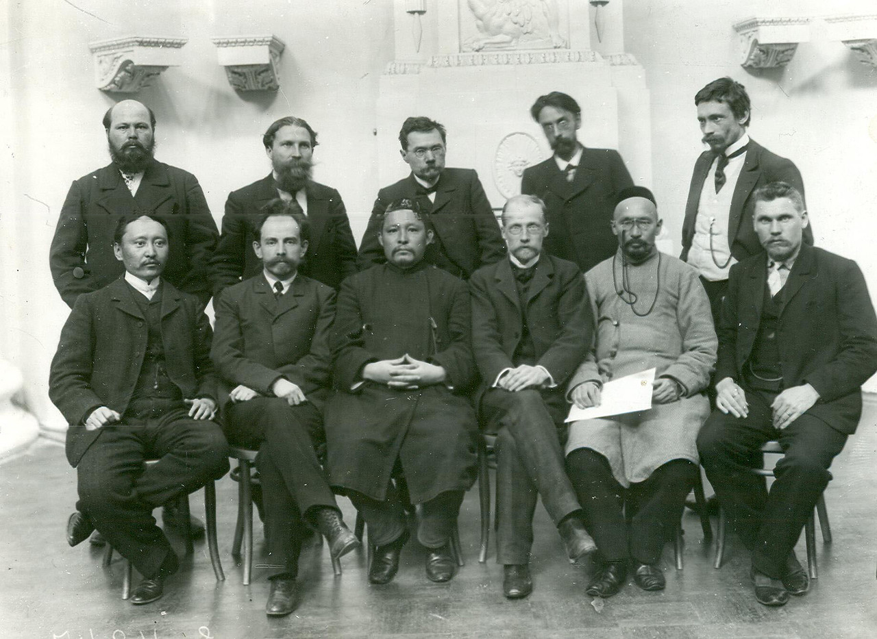 The members of the second Russian State Duma from Siberia and Steppe Region, 1907